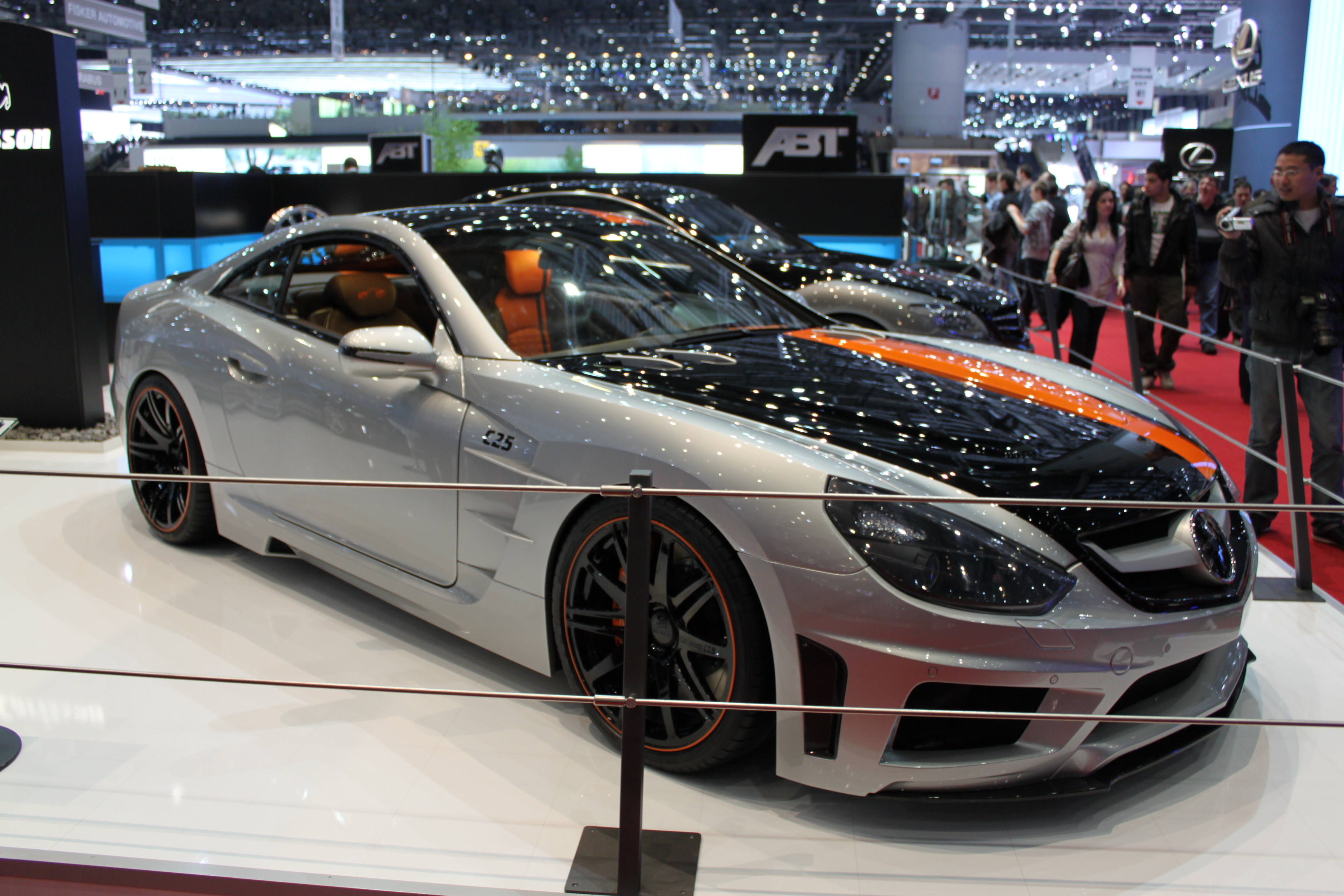 Carlsson C25 at the 2010 Geneva Motor Show